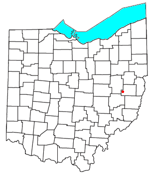 Locator map of the unincorporated community of Tippecanoe in Harrison County, Ohio, United States.